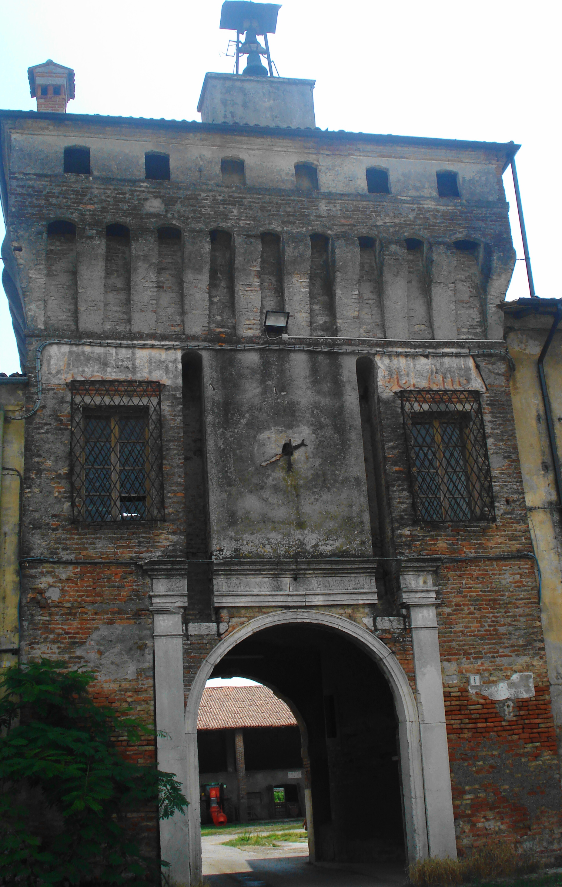 The biggest building in Solaro